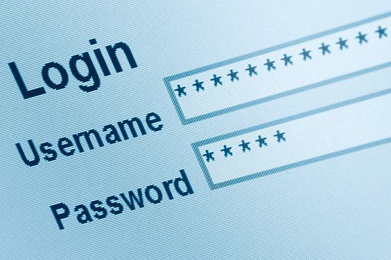 Phishing Login